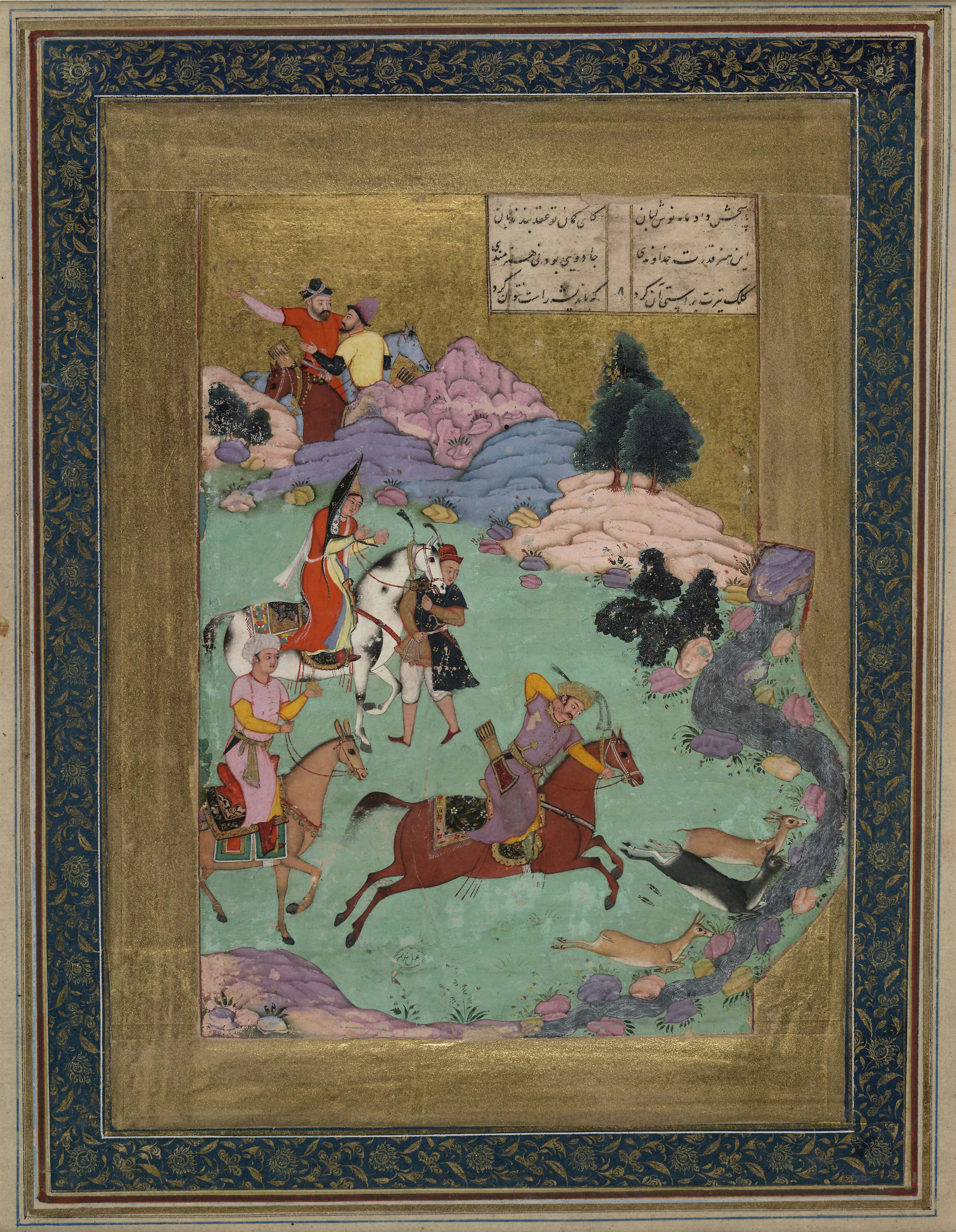 Album leaf; painting depicts Bahram Gur (central figure) on horseback hunting three doe, from a Khamseh of Amir Khusrau Dihlavi. Behind the hunter stand two attendants on horseback, and one on foot. In the far distance two hunters stand behind a rocky hill. A stream, rocky hills, and minimal folliage decorate the background. Two columns, each composing of three lines of text, appear in the top right corner. Painted in opaque watercolours, gold leaf, and ink on paper.